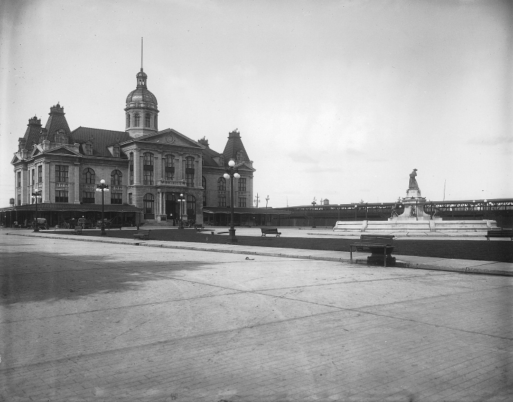 Photograph, Maisonneuve Market, Morgan Boulevard, Montreal, QC, 1916, Wm. Notman & Son, Silver salts on glass - Gelatin dry plate process - 20 x 25 cm